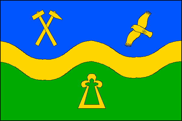 Municipal flag of Malé Svatoňovice village, Trutnov District, Czech Republic.